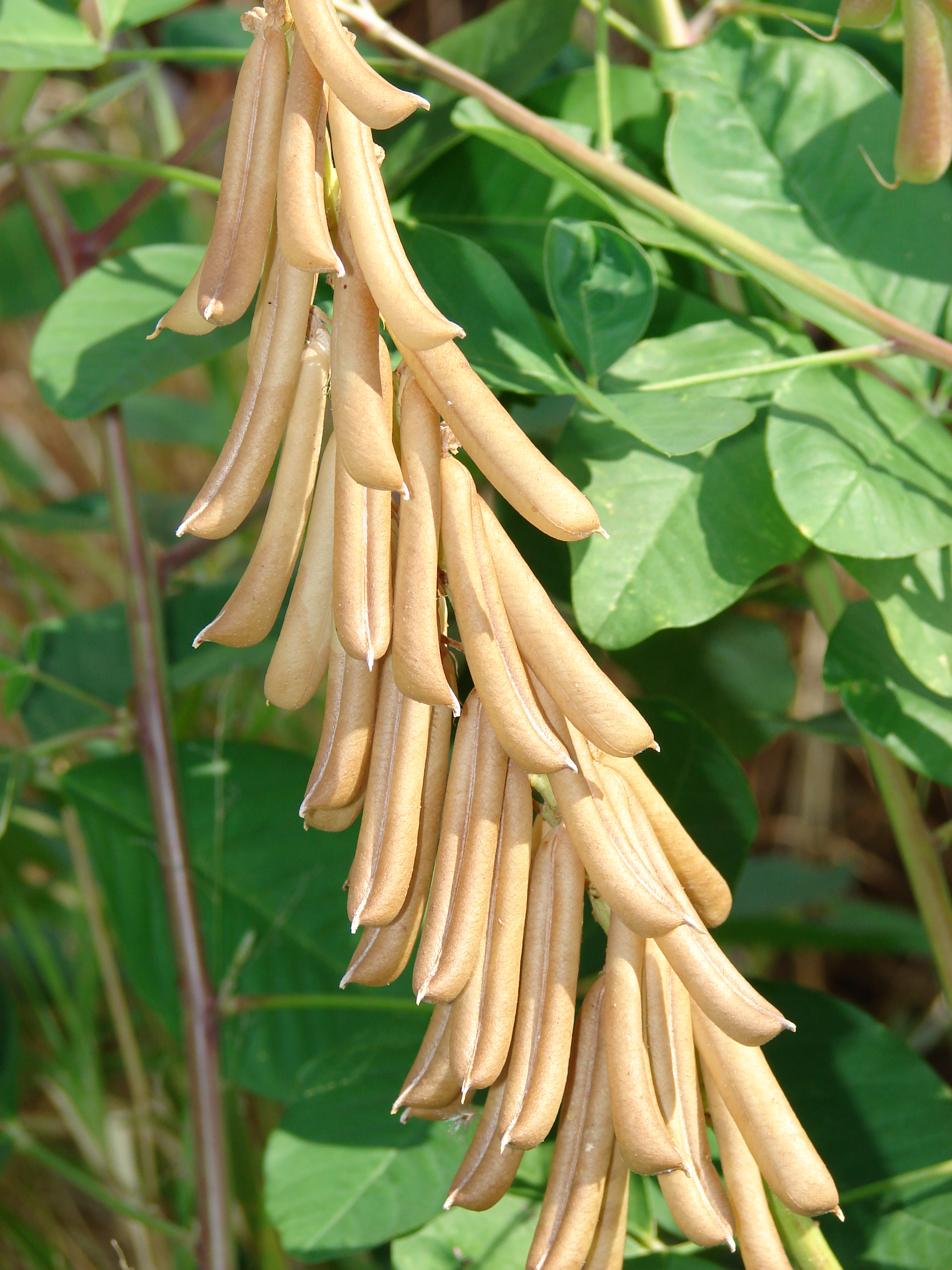 Crotalaria pallida (seedpods). Location: Maui, Olowalu